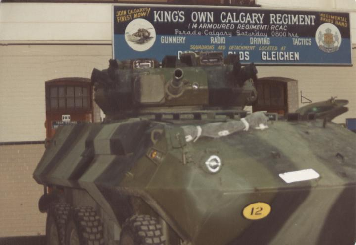 Canadian AVGP fire support vehicle of the The King's Own Calgary Regiment.